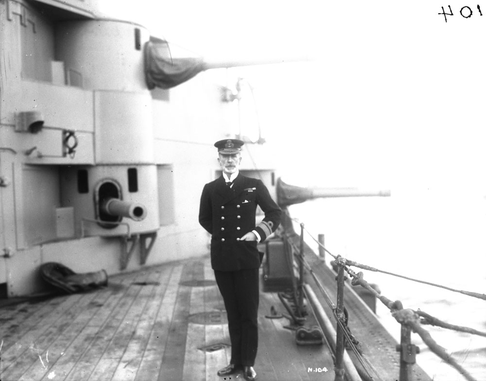 Rear-Admiral Sir William Pakenham, K.C.B. Commanding British Battle Cruiser Force. Comment : He is aboard his flagship HMS Lion. In lower background is a BL 4-inch Mk VII gun.